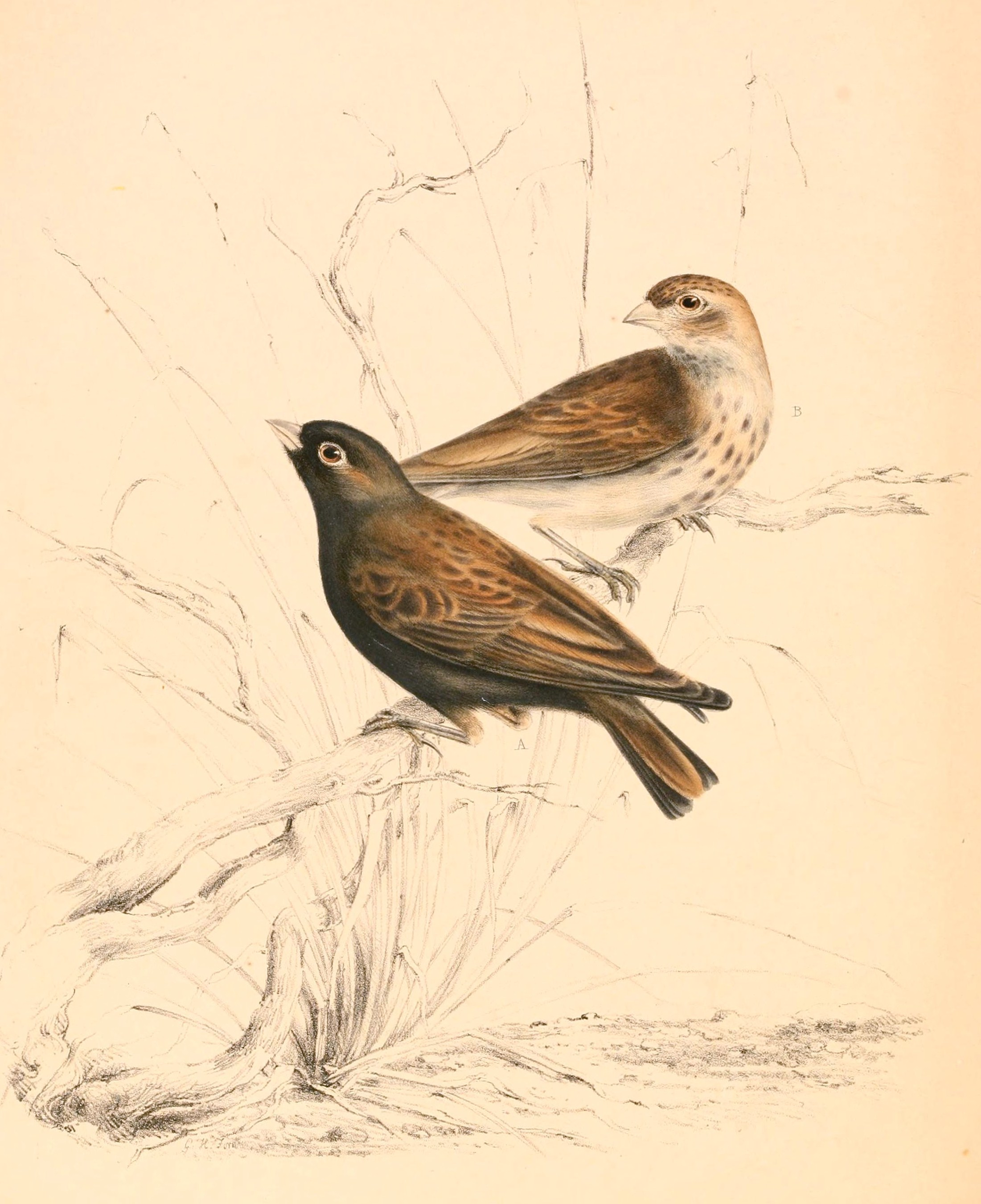 « Pyrrhulauda australis » = Eremopterix australis australis (Subspecies of Black-eared Sparrow-Lark) - male in front, female behind